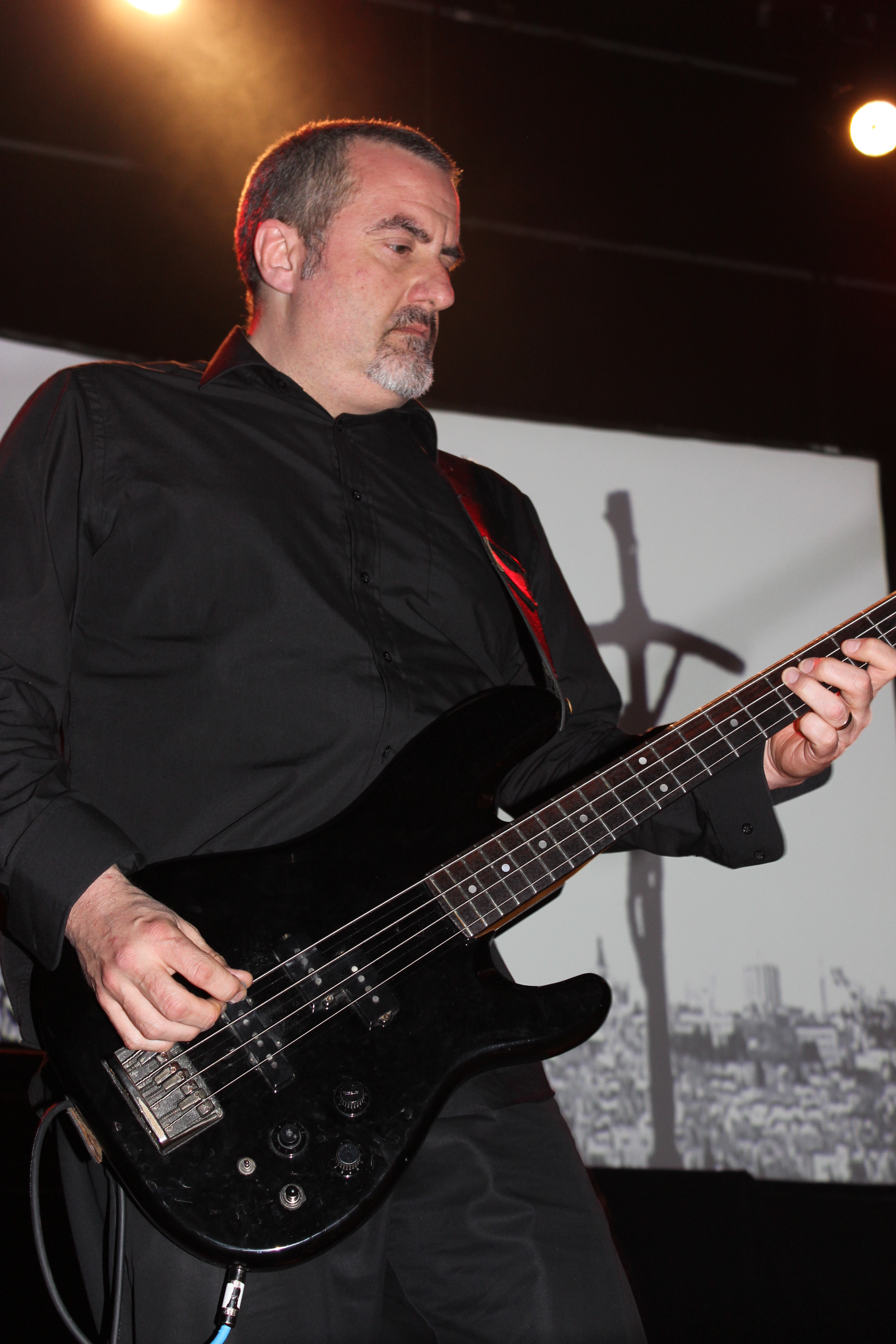 Godflesh @ Henry Fonda Theatre 4/22/14